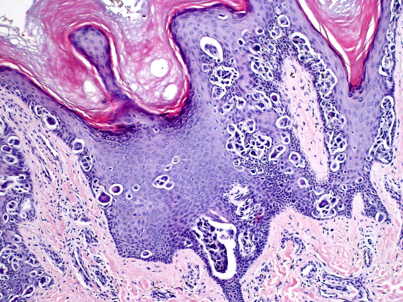 Acral naevus